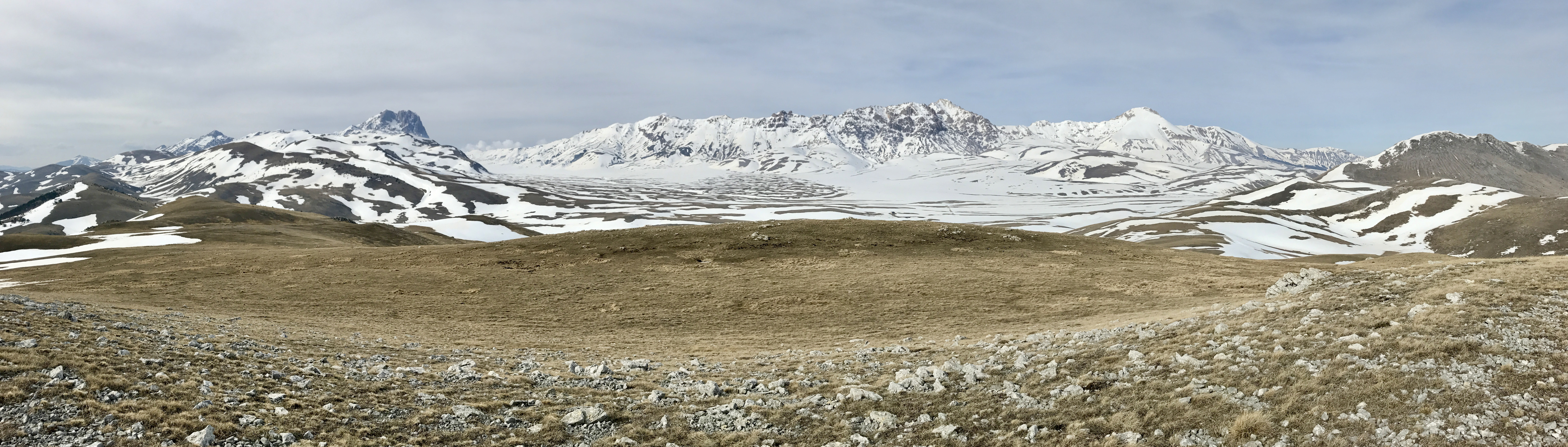 Panoramic view from Campo Imperatore, Gran Sasso National Park.